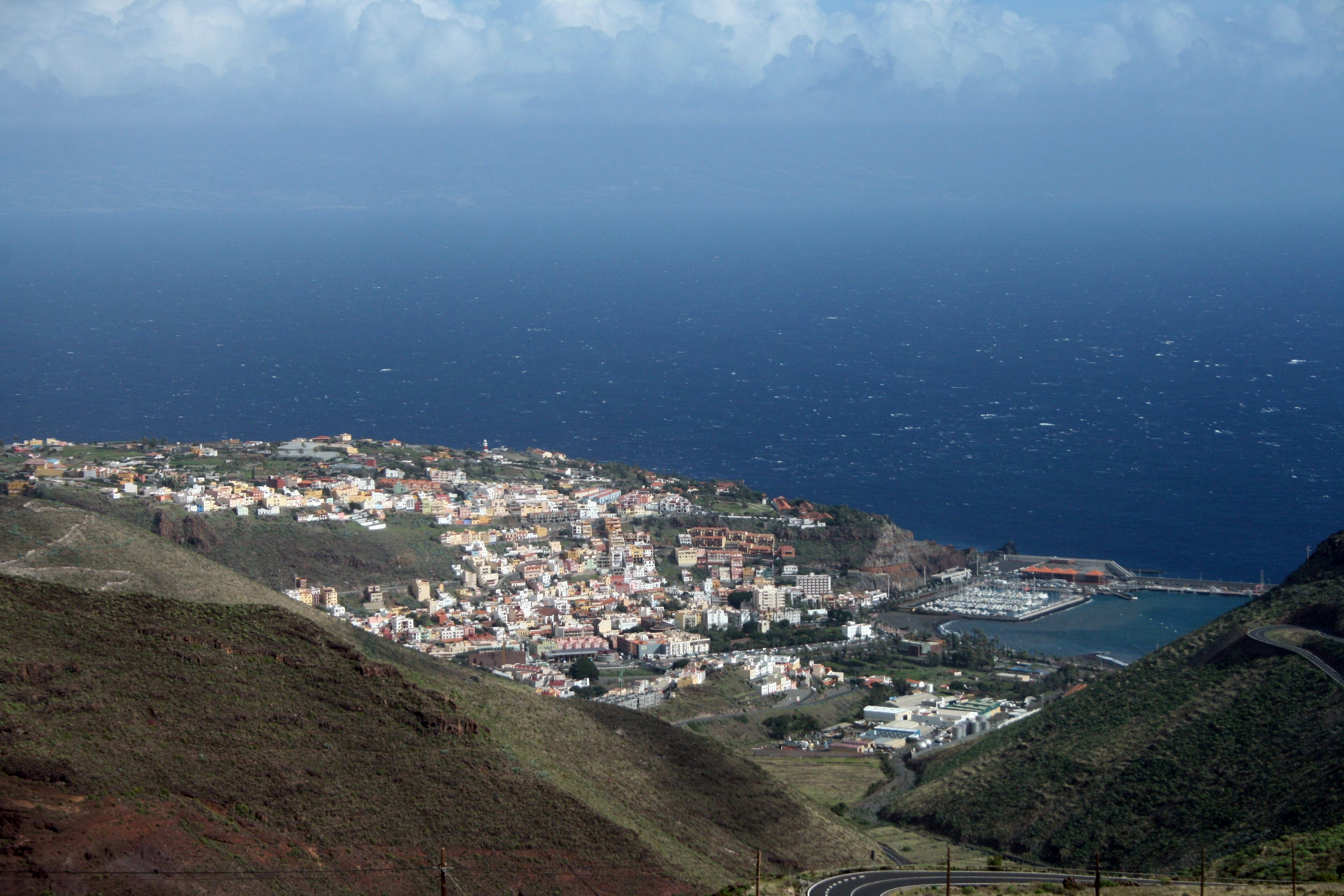 View to major city San Sebastián de La Gomera on La Gomera